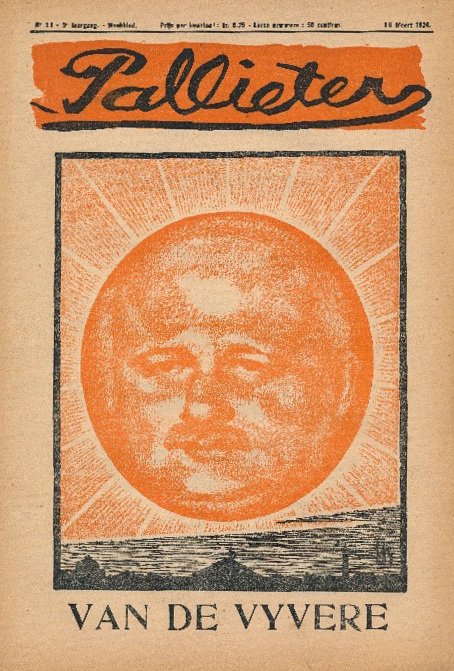 Front page of the Flemish magazine Pallieter (1922-1928). All front pages were designed and illustrated by Jos De Swerts (1890-1939).